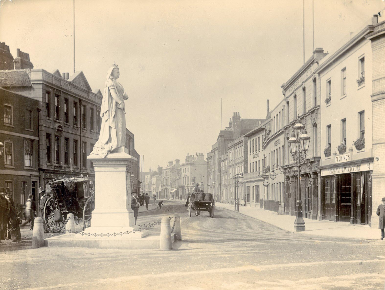 Friar Street, Reading, looking westwards from St. Laurence's Church to the statue of Queen Victoria, where a horse-drawn cab waits, c. 1888. A wagon carrying sacks, probably of coal, heads west. On the south side of the street, part of No. 164; Nos. 163 and 162 (Frank Attwells, Binfield and Company, music shop). On the north side, the gate-piers with gas-lamps on them at the end of Station Road; Nos. 18, 17, 16, 15, 14, 13, 12, 11, 10, 9, 8 and 7 (Queen's Hotel); Nos. 6 and 5. 1880-1889 : photograph by H. W. Taunt and Company; glass negative, Box 22 No. 6973.